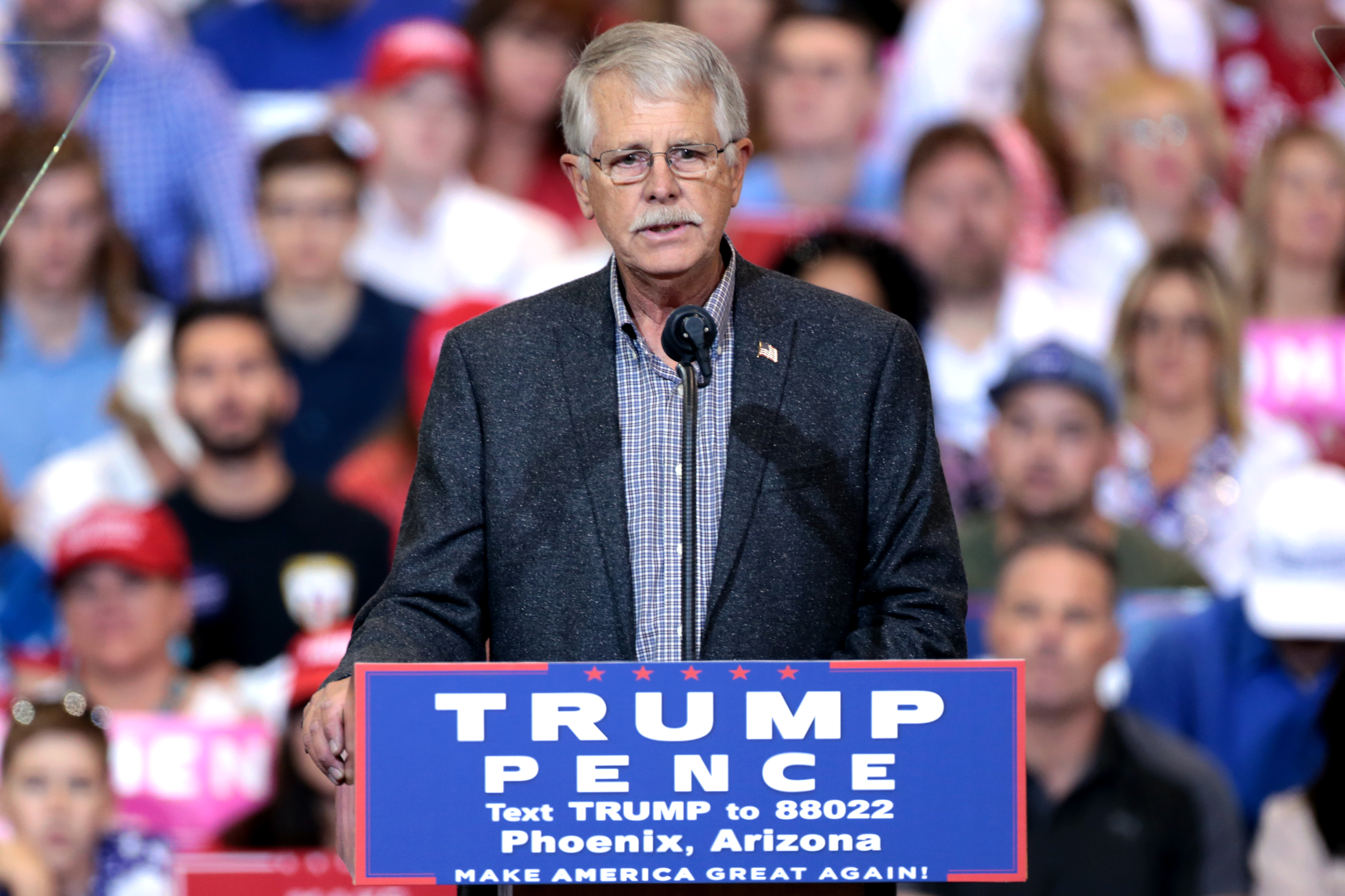 Carl Mueller, father of Kayla Mueller, speaking with supporters of Donald Trump at a campaign rally at the Phoenix Convention Center in Phoenix, Arizona.